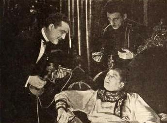 Still for the American film Adam's Rib (1923) with Elliott Dexter, Milton Sills, and Theodore Kosloff, on page 191 of the December 23, 1922 Exhibitor's Trade Review.